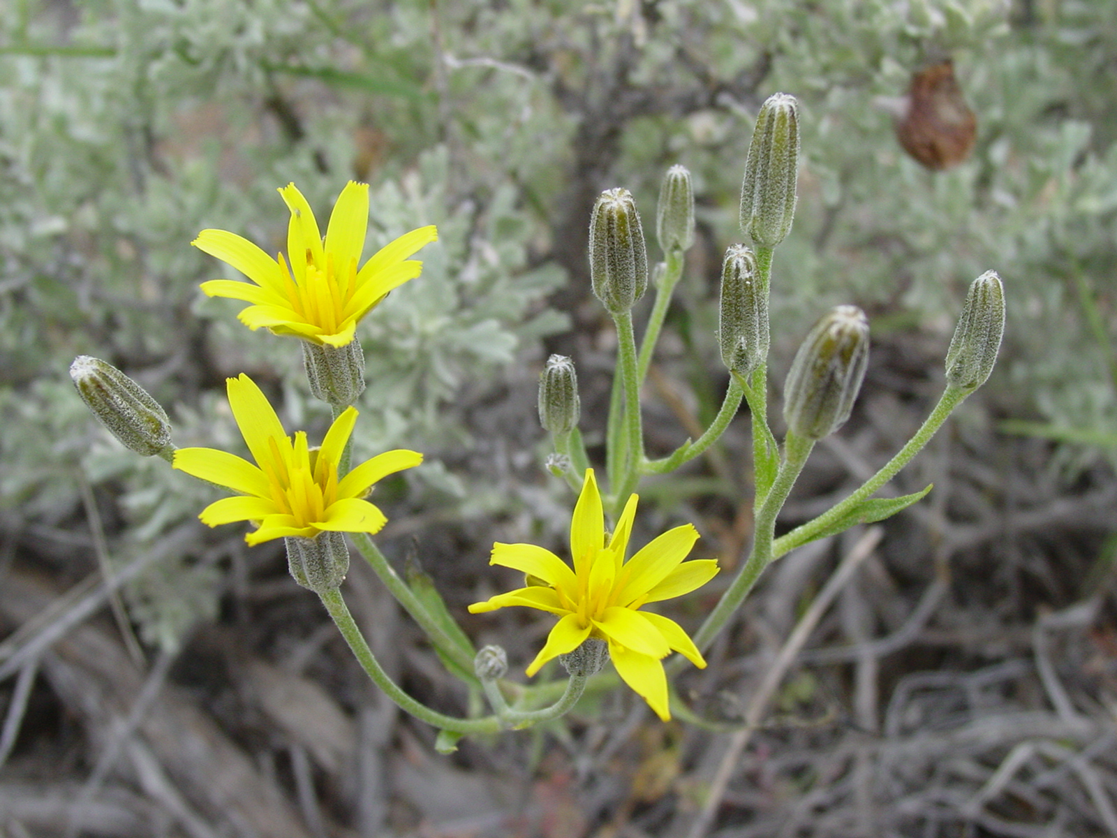 Crepis acuminata. City of Rocks National Preserve, Idaho, USA.